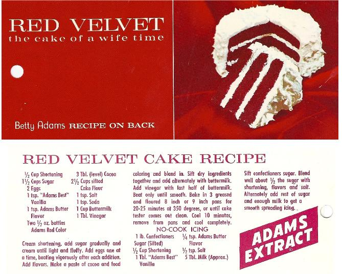 Photo of an Adams Red Velvet Cake tear off recipe card Source: [1]